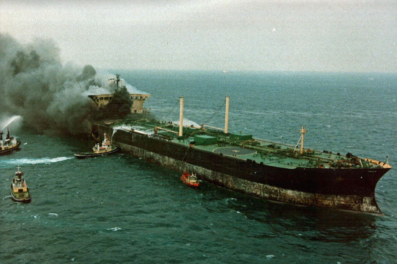 The MC Agip Abruzzo on fire